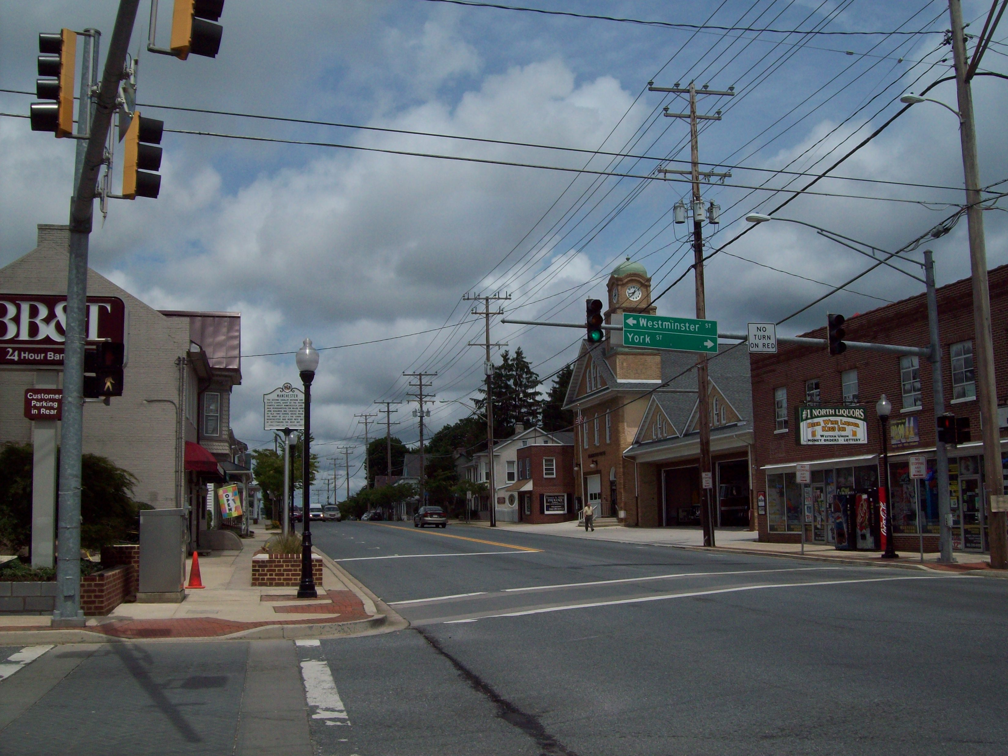 Westminster St. and York St. Intersection Downtown Manchester, Maryland